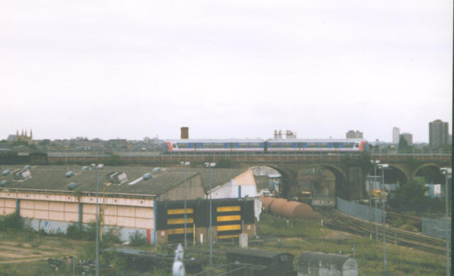 Stewarts Lane depot. A similar scene to 219808 - the sidings at the right are probably those seen in Danny Robinson's more recent view.